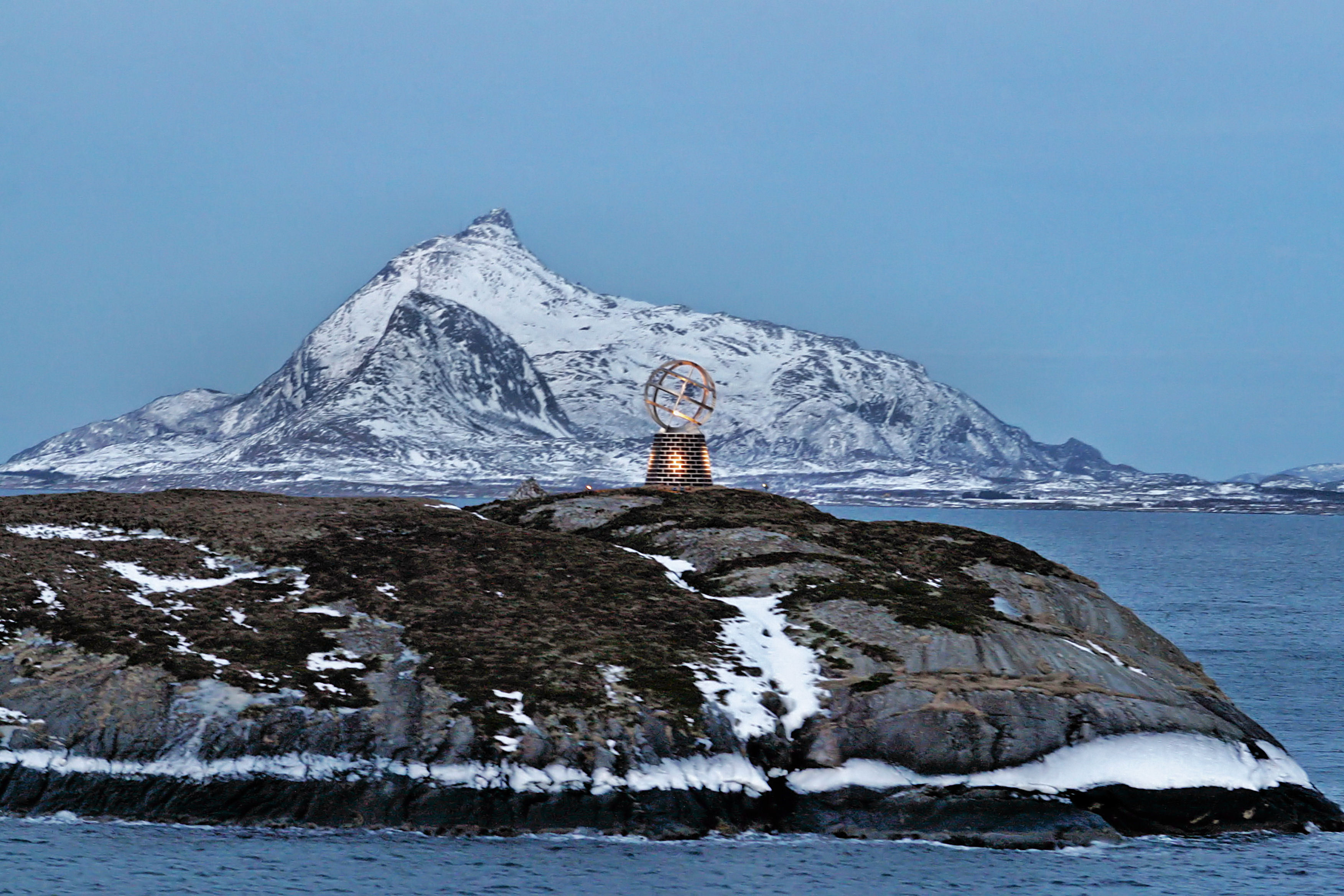 View of Polar circle from Hurtigruten ship. Winter 2006-2007